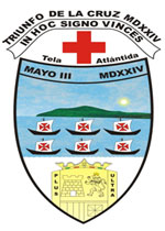 Escudo de armas de la ciudad de Tela